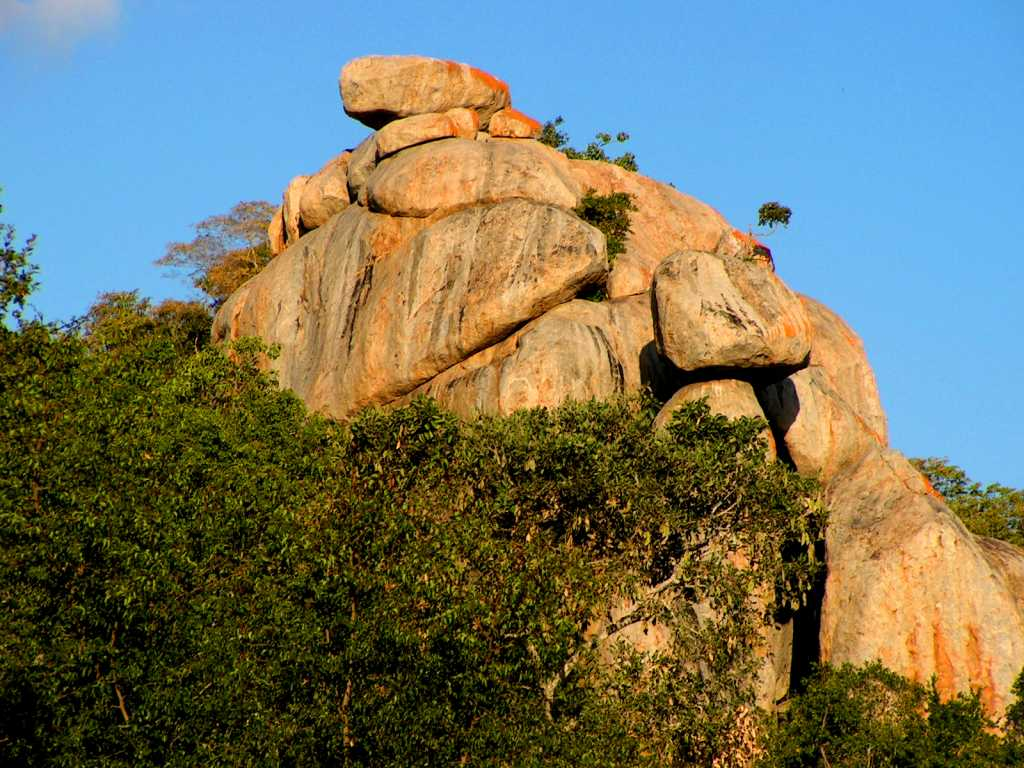 Kopje (rock formation), Serengeti National Park, Tanzania